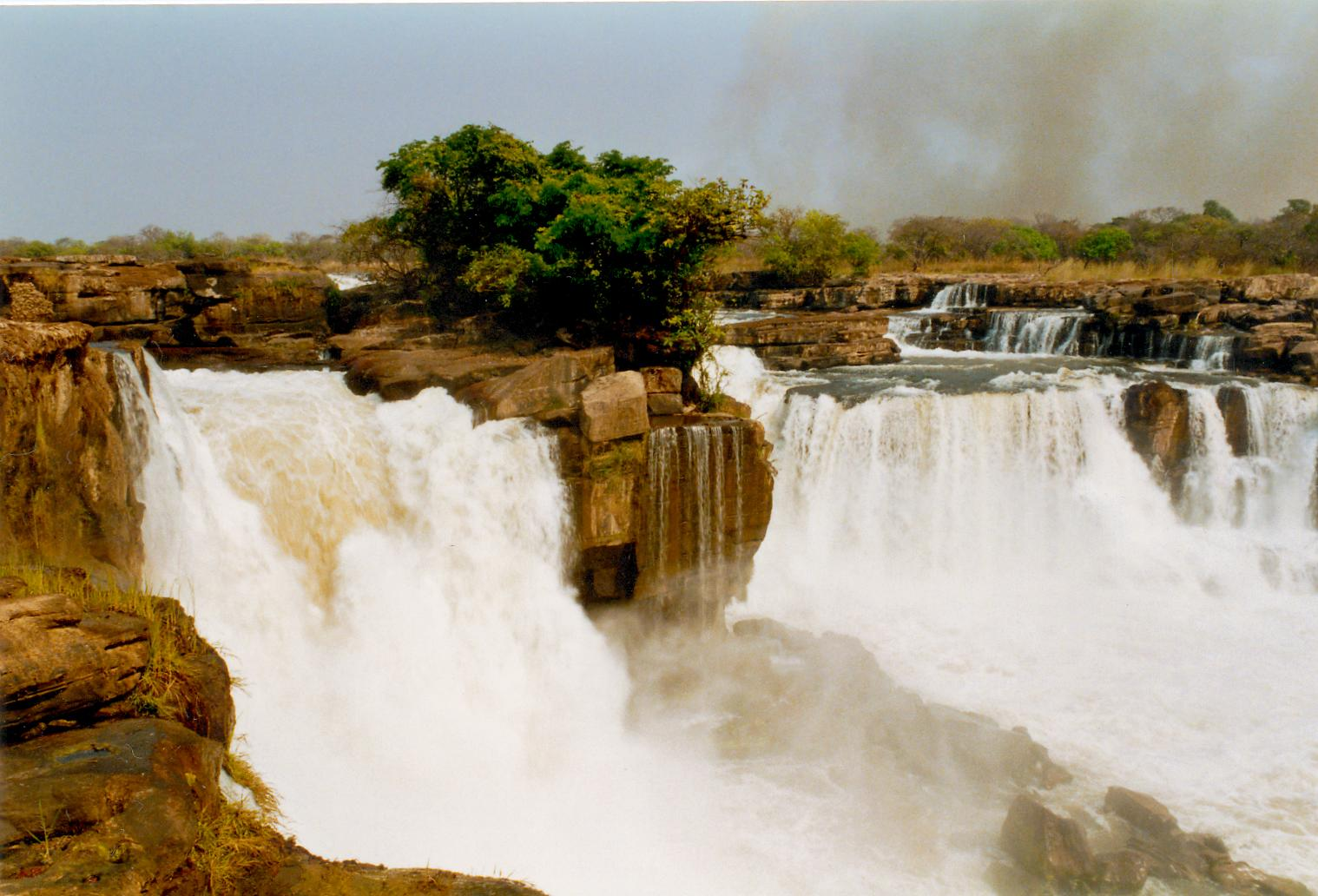 Tazua Falls, Rio Cuango. One of Angola's richest sources of gem diamonds.